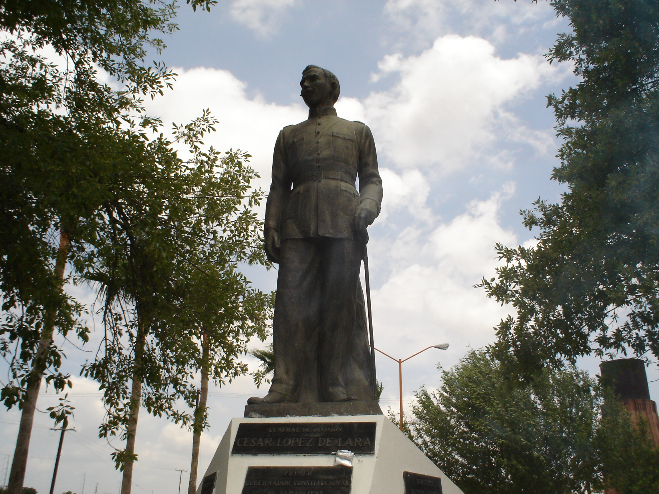 Statue of Gral. César López de Lara in Nuevo Laredo, Tamaulipas.